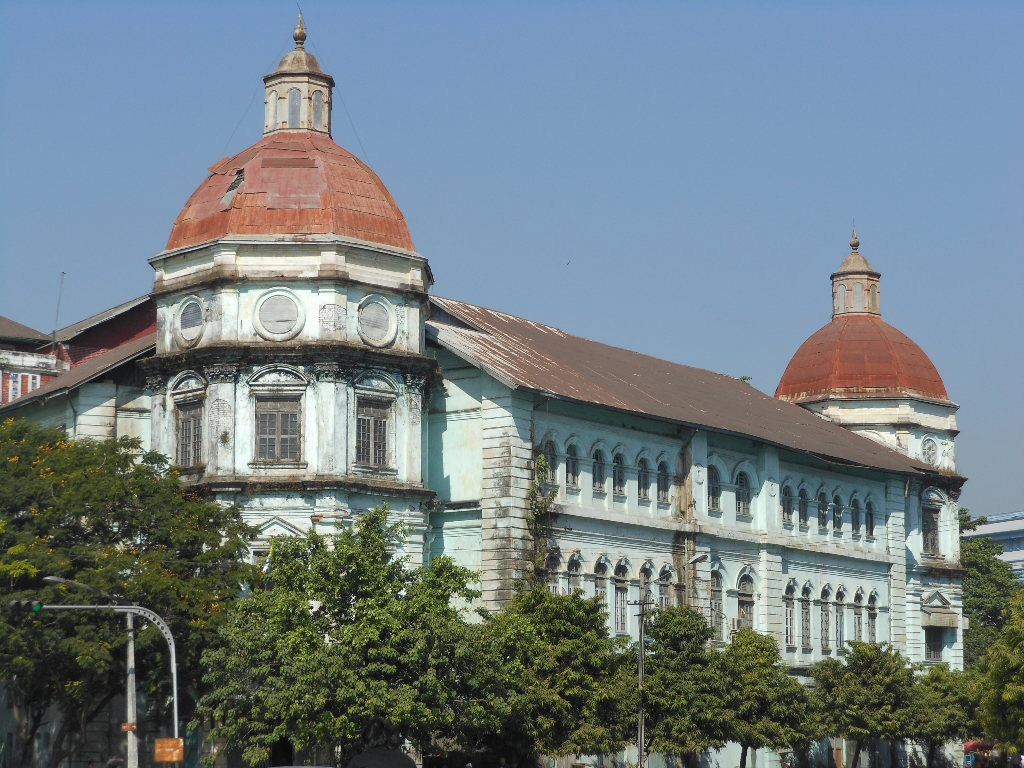 Colonial Relic Under a Rusted Tin Roof